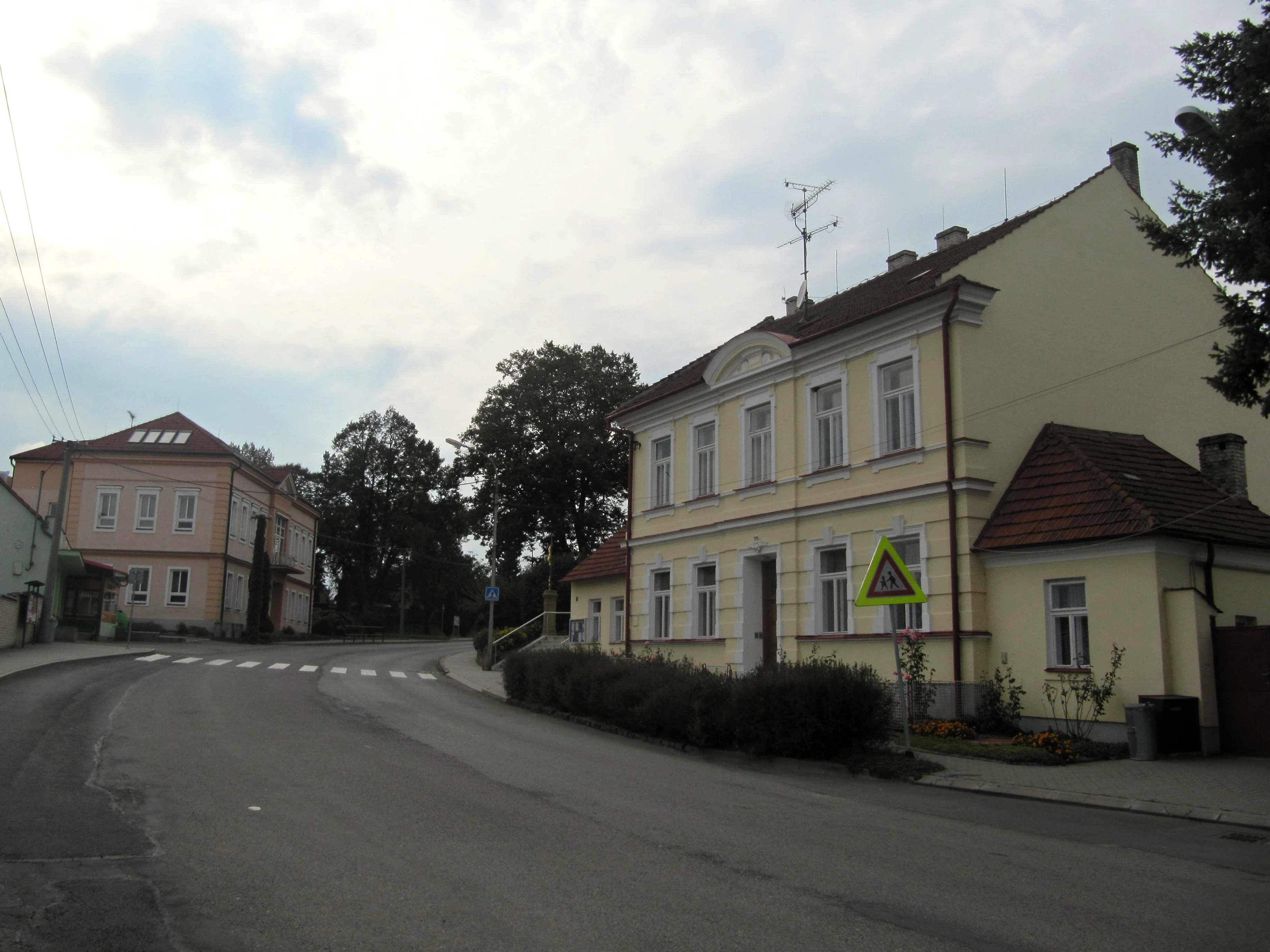 Hradčovice in Uherské Hradiště District, Czech Republic.Centrum of the village.